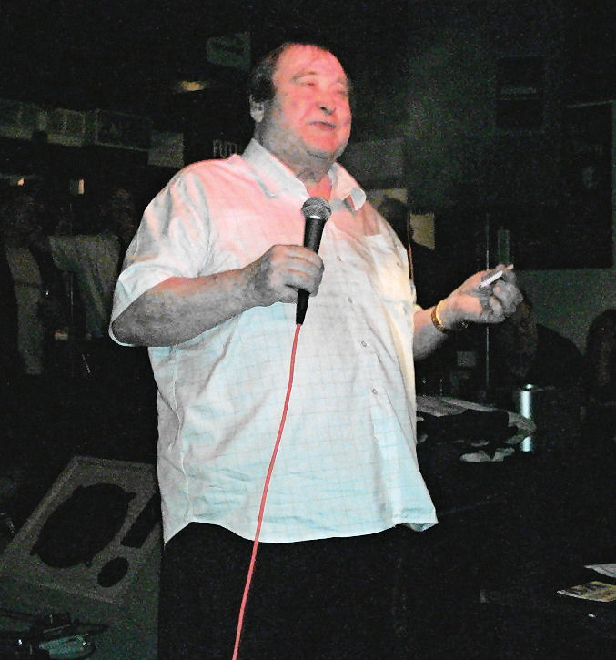 Taken 29 May 2005. Self made, added to illustrate Bernard Manning.